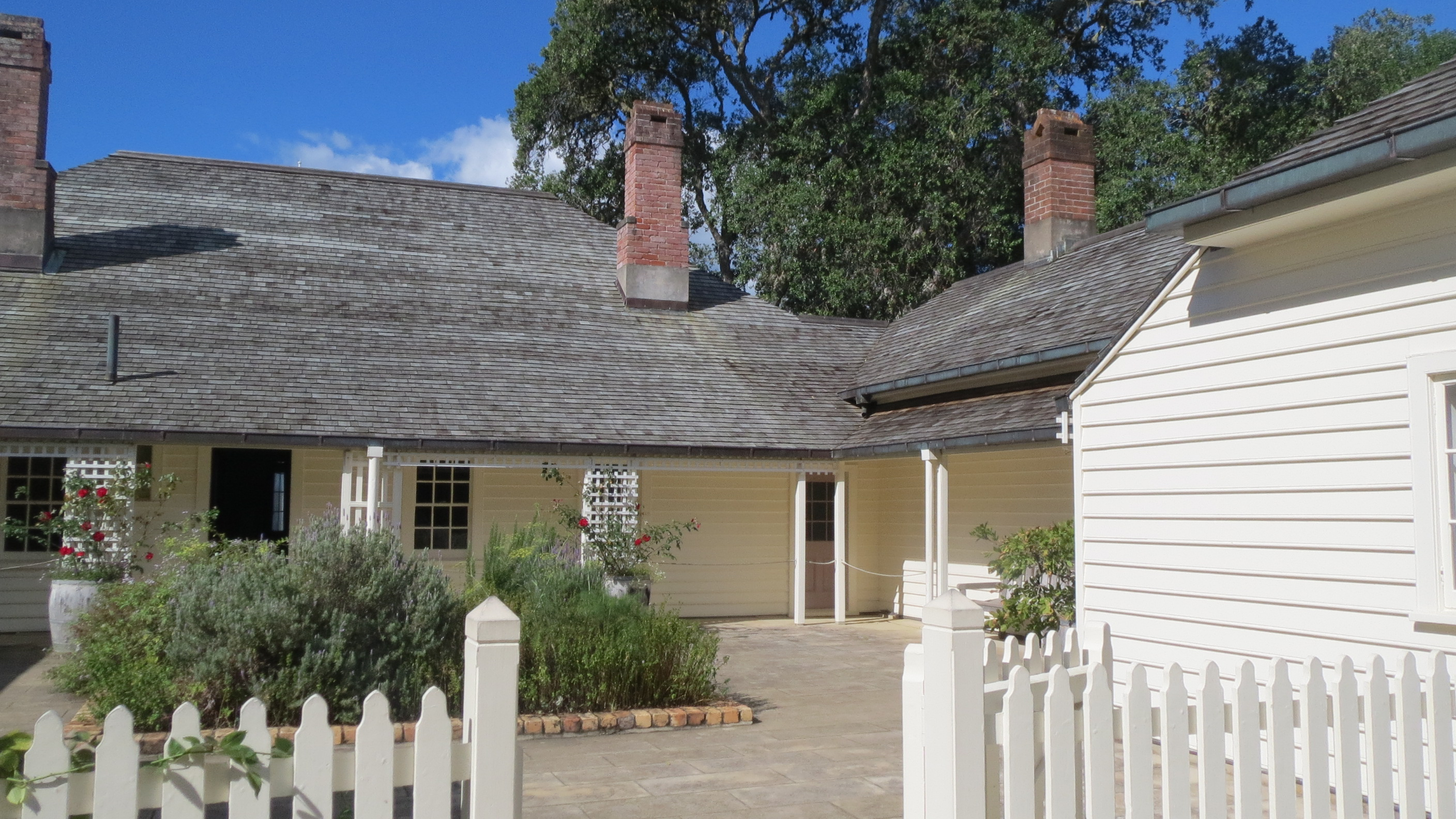 Beside the treaty grounds.